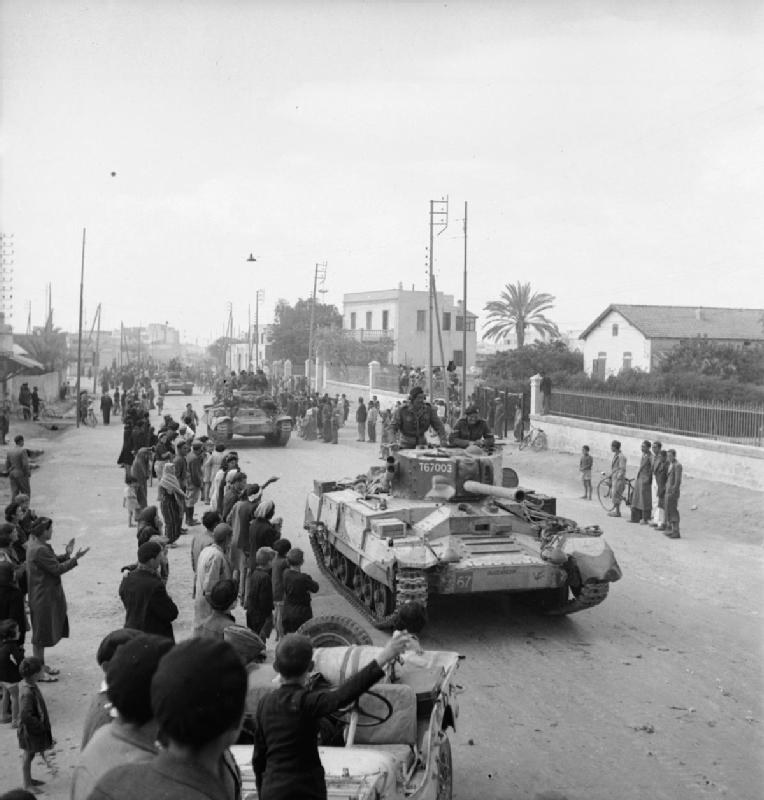 The British Army in Tunisia 1943 Valentine tanks pass cheering crowds as they enter the town of Sfax, 10 April 1943.